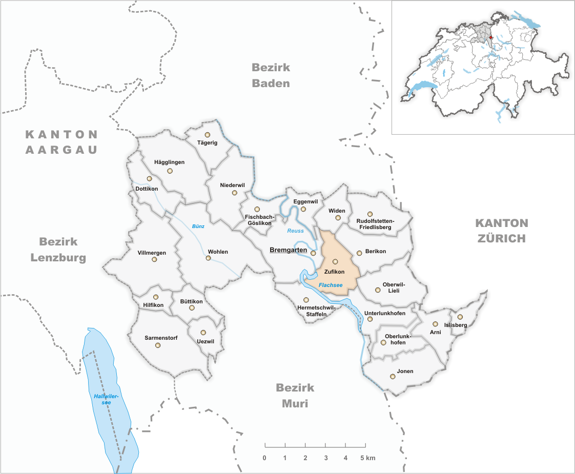 Municipality Zufikon